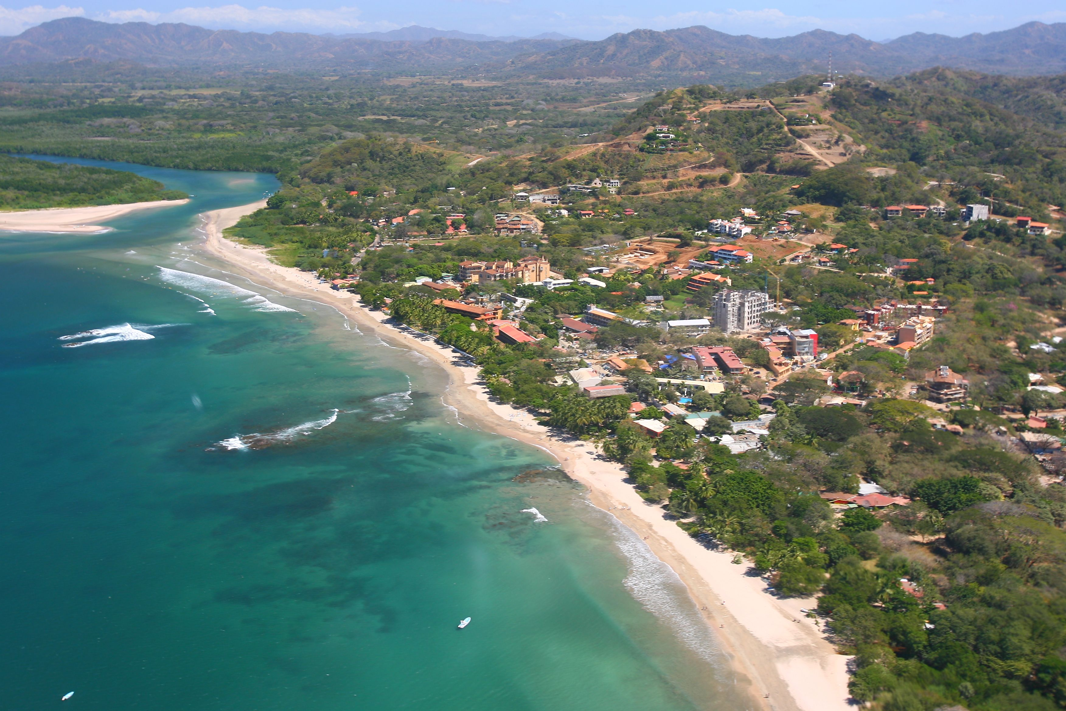 2007 Costa Rica aerial photo of Playa Tamarindo and River mouth showing the town and beach of Tamarindo and the Pacific Ocean